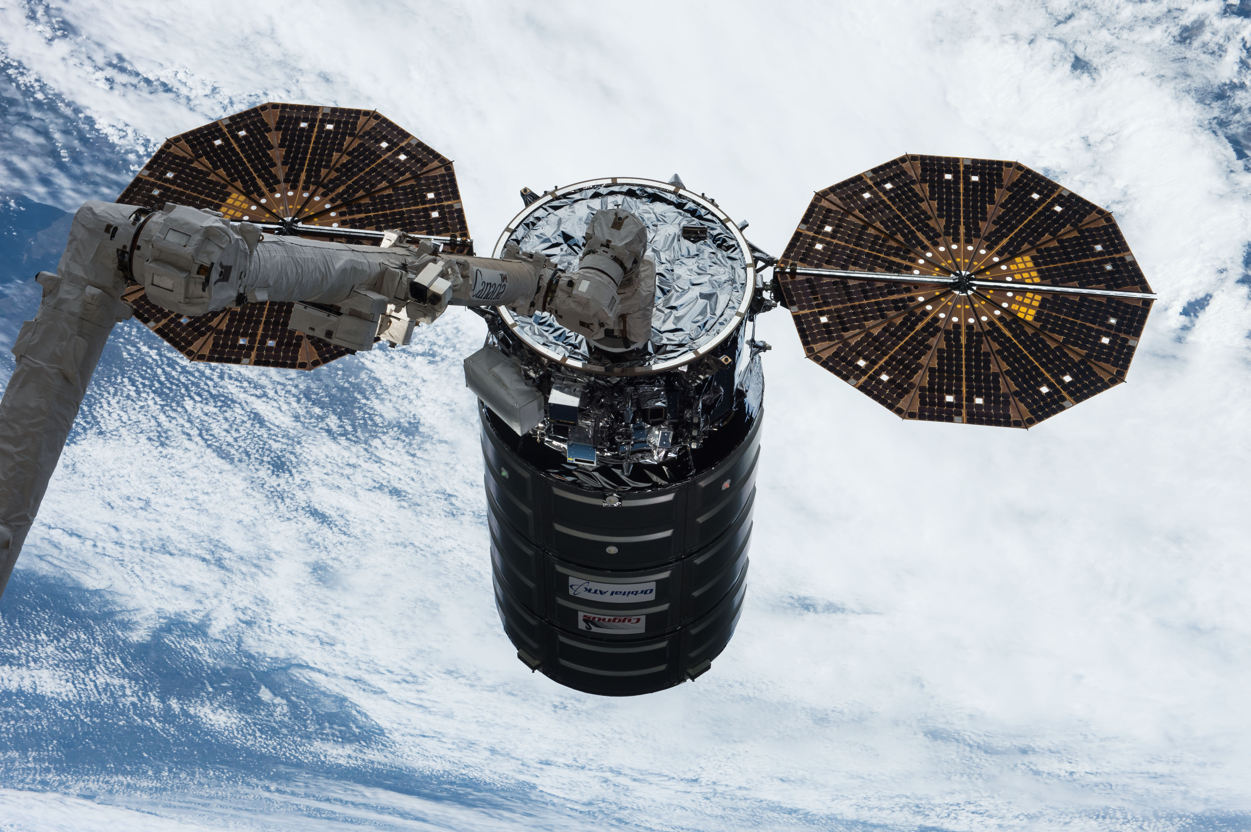 The Cygnus resupply ship from Orbital ATK is in the grips of the Canadarm2 robotic arm prior to its installation to the Unity module at the International Space Station on April 22, 2017.